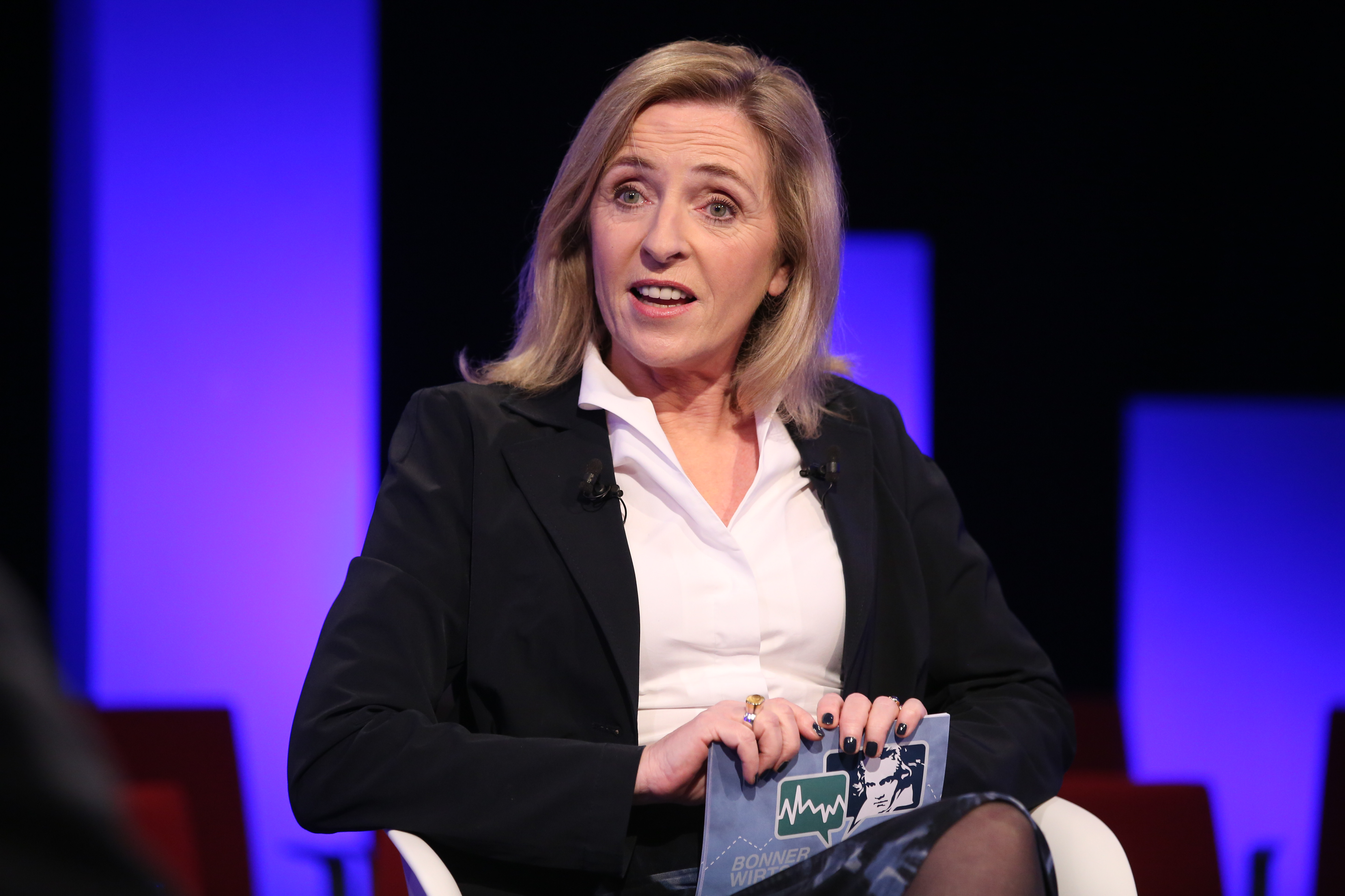 Angela Maas at the 22nd Bonn Economic Forum (Bonner Wirtschaftstalk), Kunst- und Ausstellungshalle der Bundesrepublik Deutschland (Federal Art and Exhibition Hall), Bonn